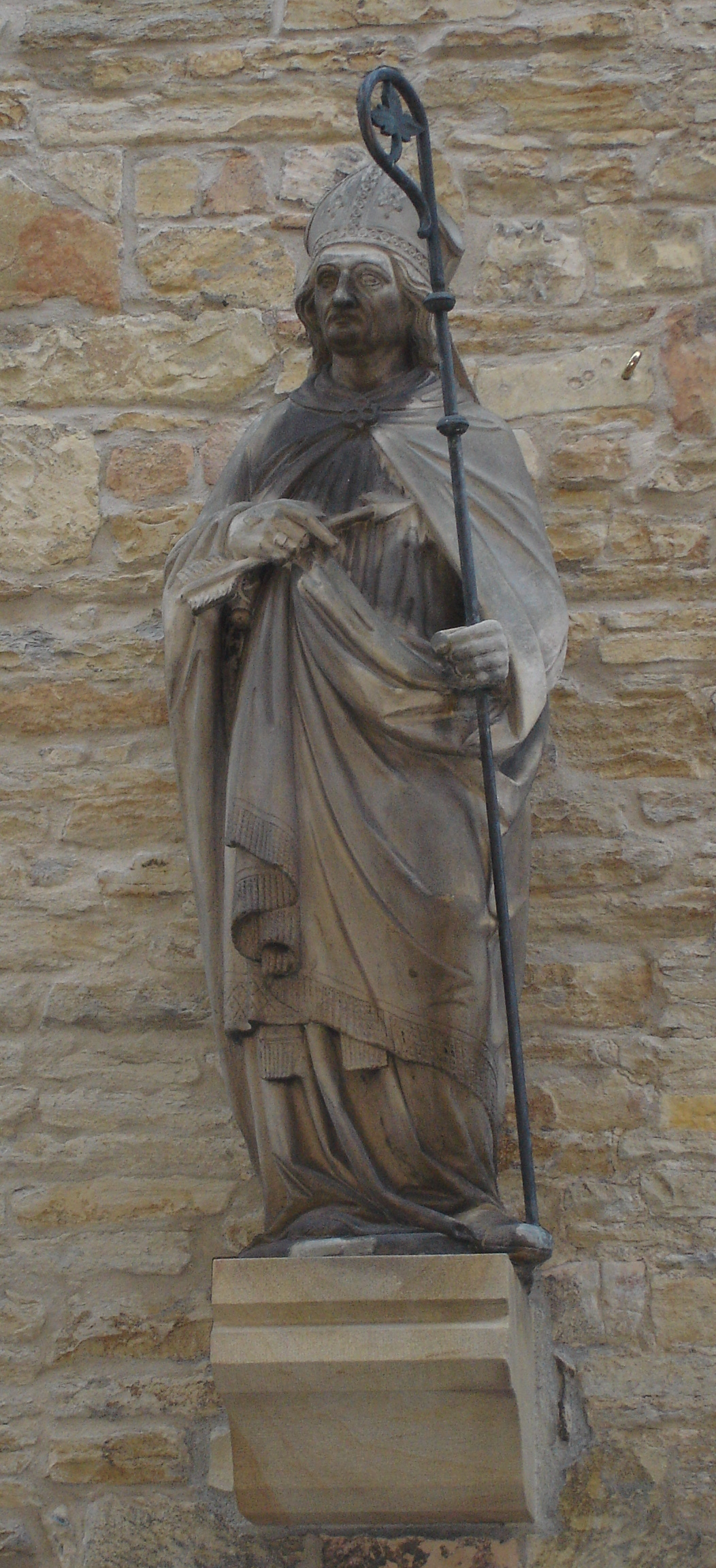 A statue showing bishop Lambertus on the south wall of the historical city hall in Münster, Westphalia, Germany